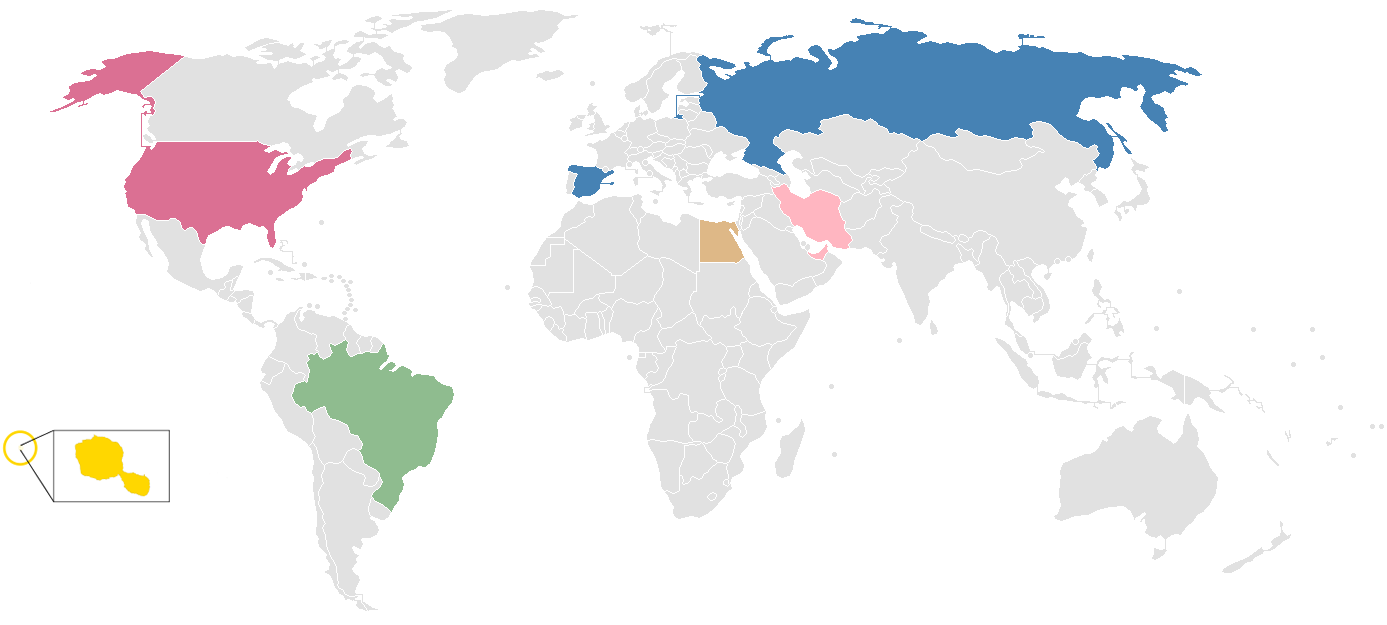 Map showing the national teams participating in the 2018 Beach Soccer Intercontinental Cup. They are coloured based upon the confederation they are a member of. Legend: UEFA: Russia, Spain AFC: UAE (hosts), Iran CONMEBOL: Brazil CONCACAF: United States OFC: Tahiti CAF: Egypt